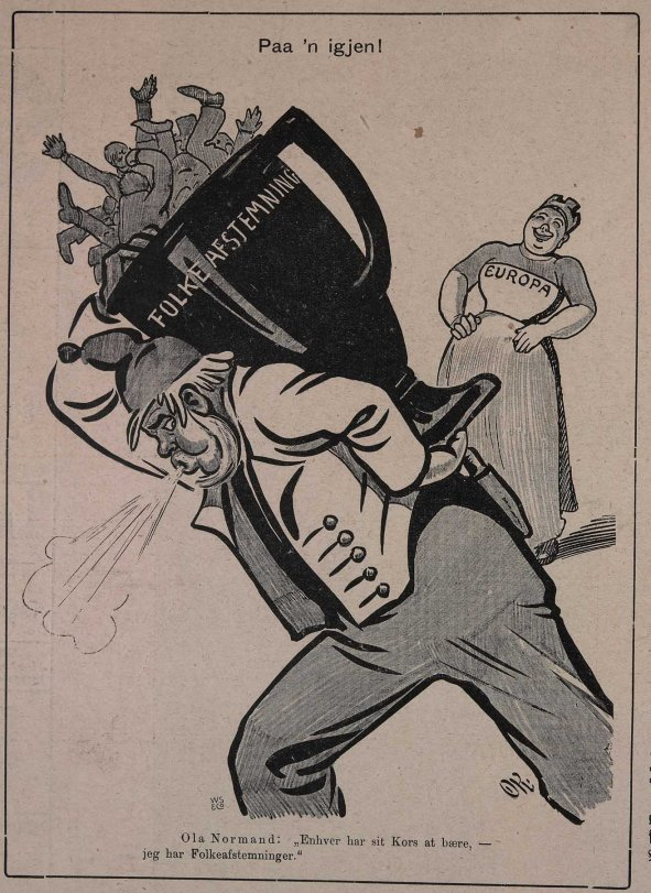 Title: Here we go again! Inscription on cup: Referendum Subtext: Ola Normand: "Everyone has their cross to bear, - I have referendums."